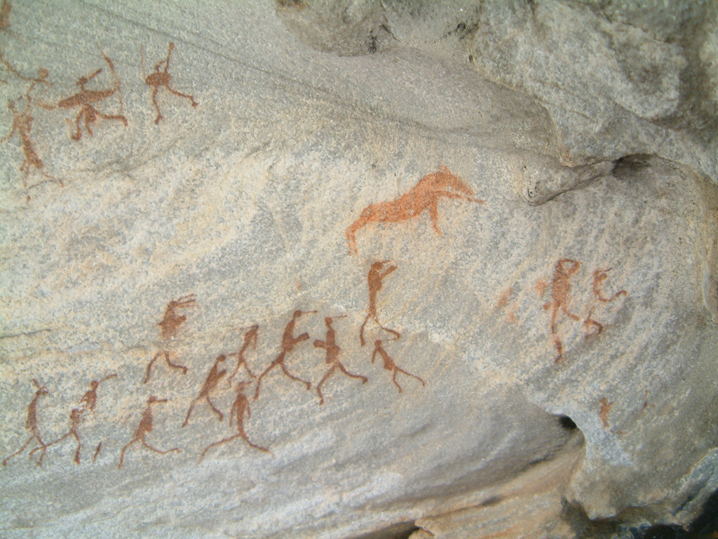 San Bushman rock art Perdekop Farm North of Mossel bay